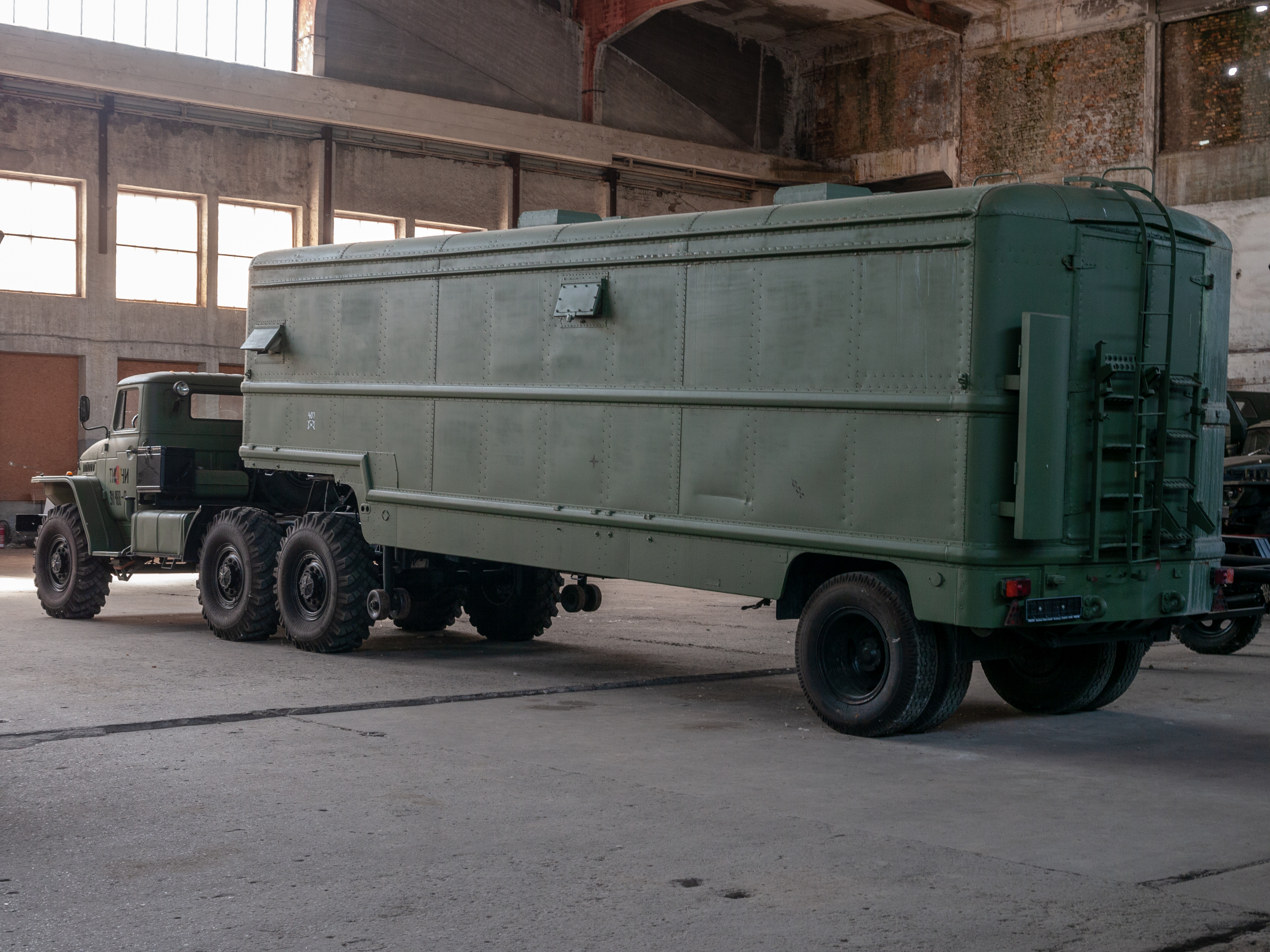 Ural 377 S